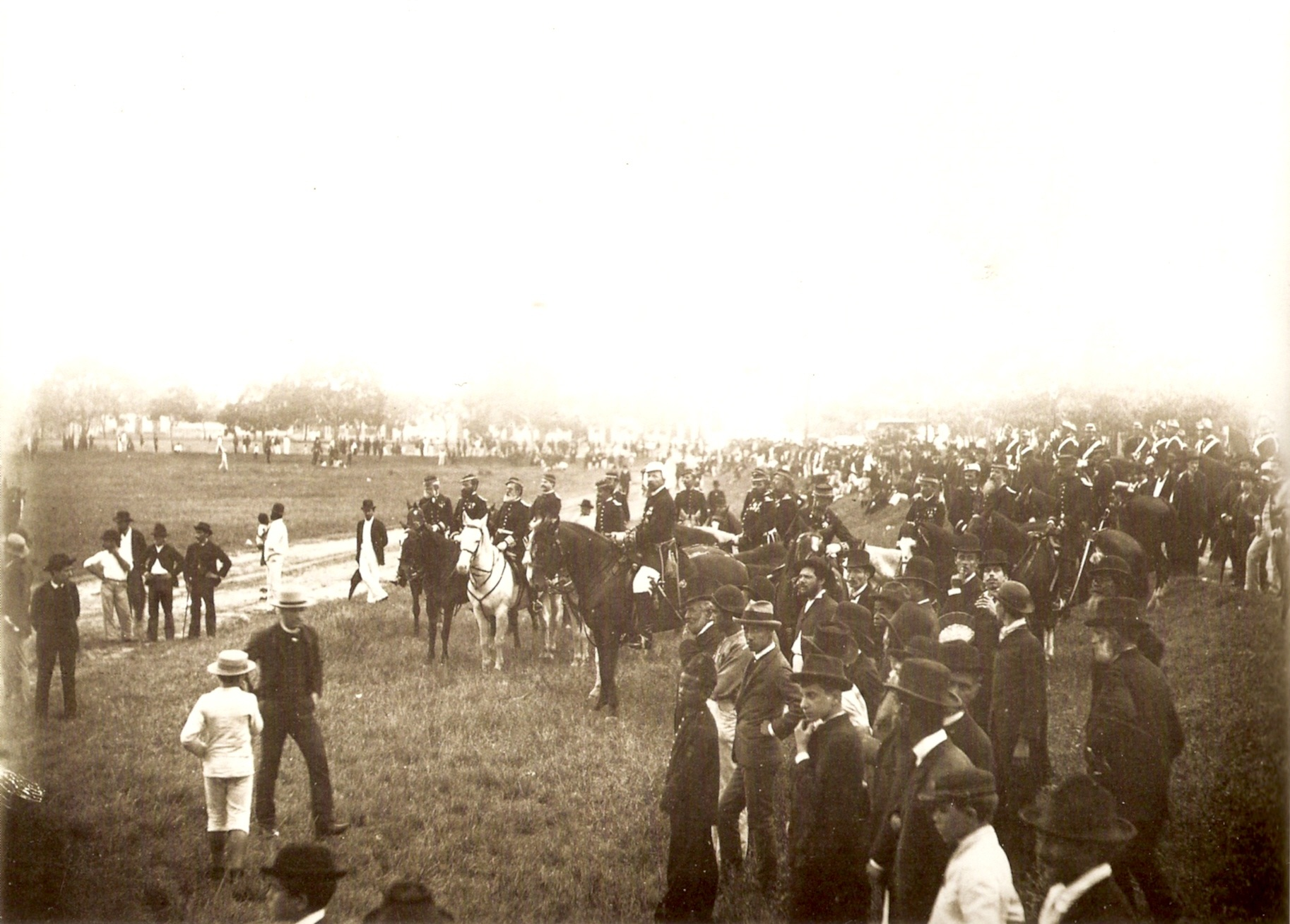 Military exercise, 1888. Gaston of Orléans, the Count of Eu can be seen mounted at the middle. He is surrounded by civilians and military officers and soldiers.